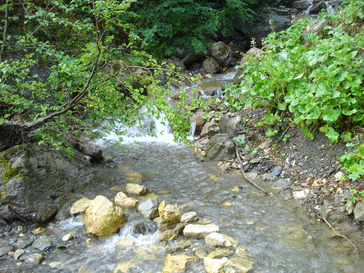 Beleshnica river on Stogovo mountain, Macedonia